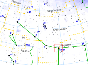 A sample file to be on display in Strategy Proposal:Markup for Maps.